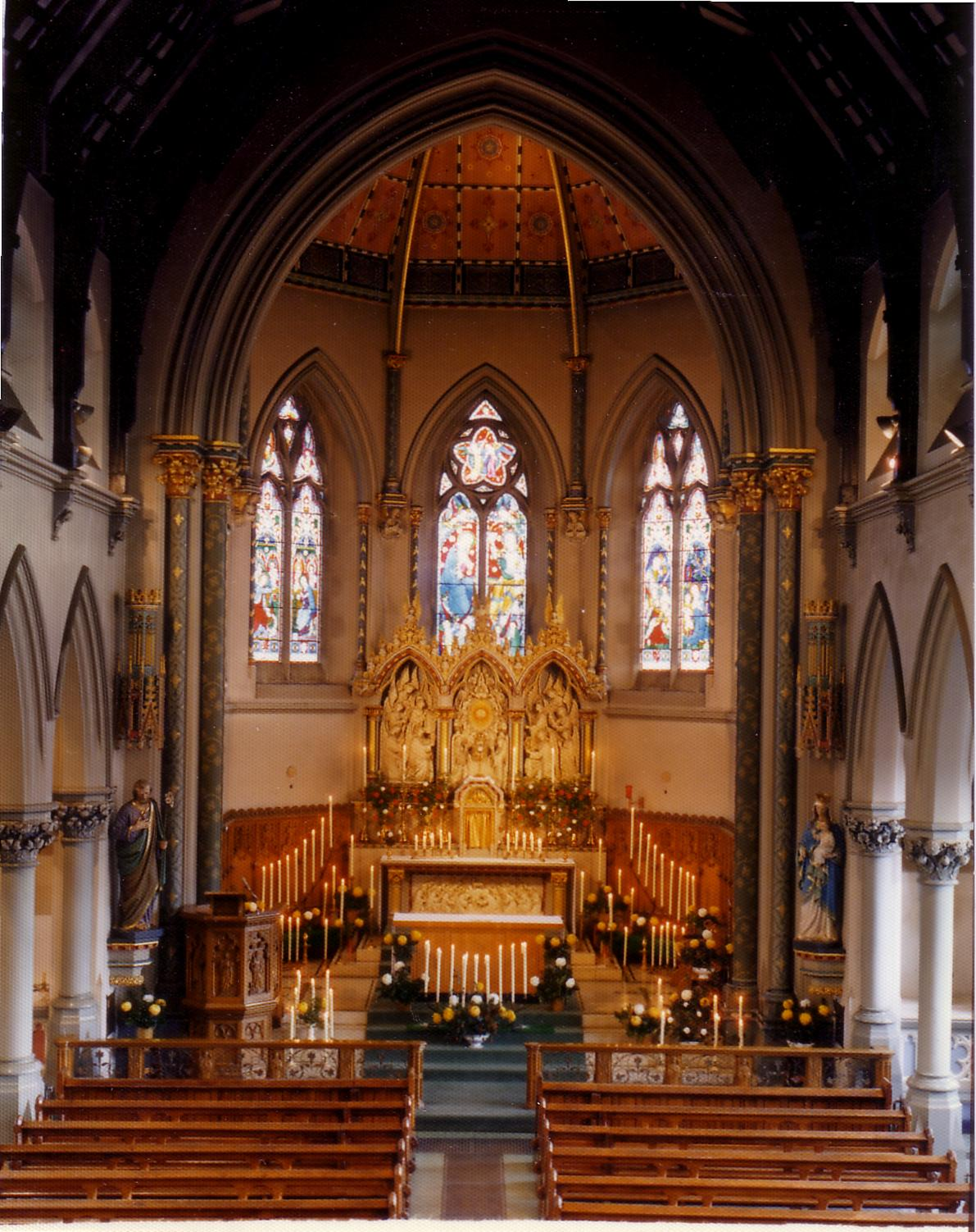 Inside the Roman Catholic church of St Ann, Chester Road, Stretford, Greater Manchester, looking east from the choir gallery to the apsidal chancel